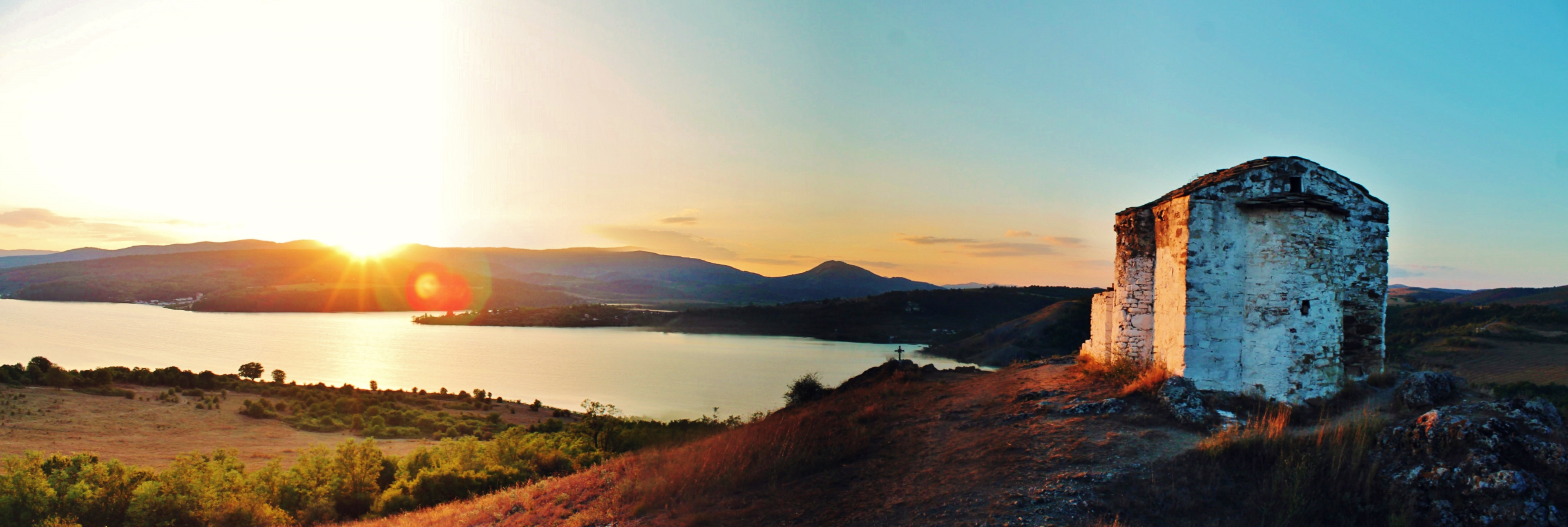 The chapel is built in the 11th century and abandoned in the years of Communist Regime in Bulgaria (1944 - 1989)